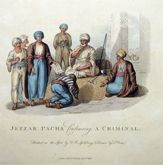 cropped version Jezzar Pasha of Acre, at court